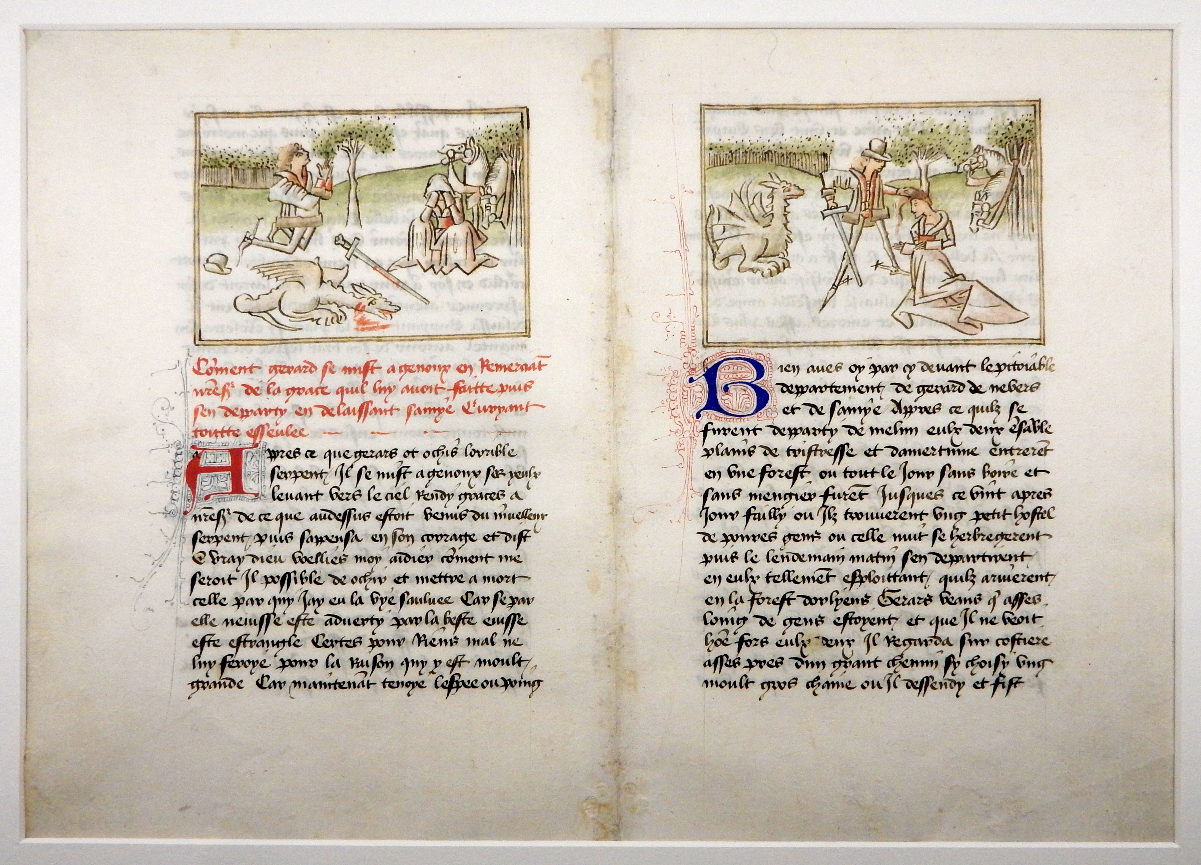 Extract from the Book of Gérard de Nevers - Jean de Wavrin (early 15th century) - Brussels KBR Royal Library of Belgium - ms 9631 - f.21v and f.20 Illuminations are made by the Master of Wavrin. f.21v Comment Gerard se mist à genoux en remerciant nostre seigneur de la grace quil lyu avait faitte (Euriant assise et pleurant, le monstre gisant par terre). f.21v How Gerard knees by thanking our Lord for the grace he has given him (Euriant sitting an d crying, the monster lying on the ground). f20. Comment Gerard de Nevers volt trenchier le chief à la belle Euriant en la forest d'Orliens, du serpent quy luy vint courir sus et comment il délaissa Euriant toutte esseulee. f20. How Gerard de Nevers wants to cut Euriant's head in the forest of Orlians, the serpent that ran to him and how he left Euriant. In repair, the pages are momentarily detached from their binding and, therefore, are not visible in the normal order.